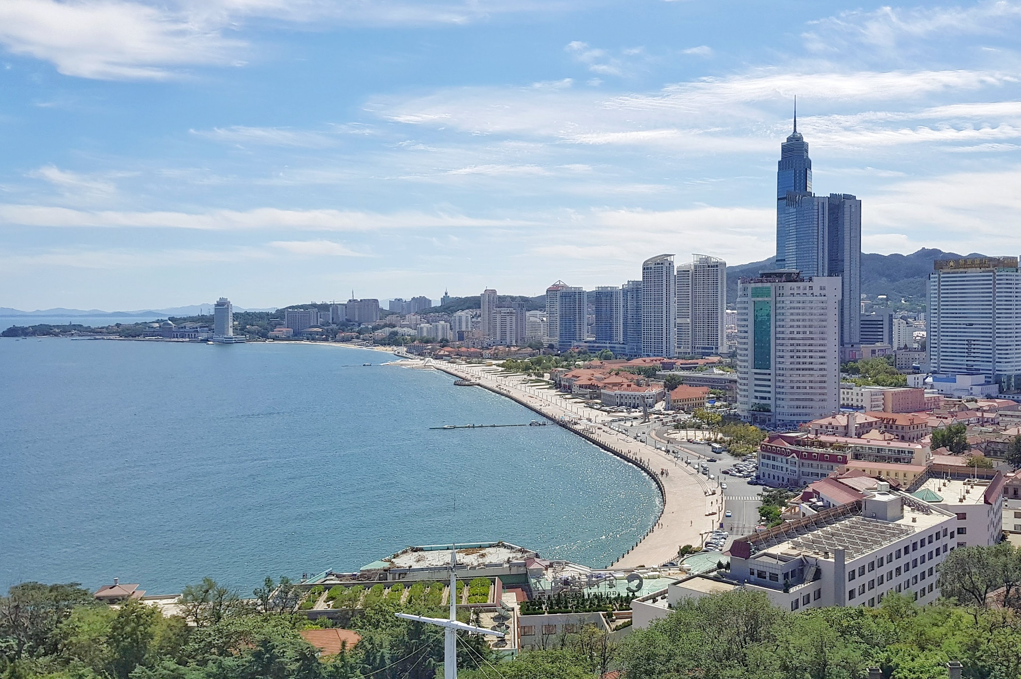 Coast, skyline